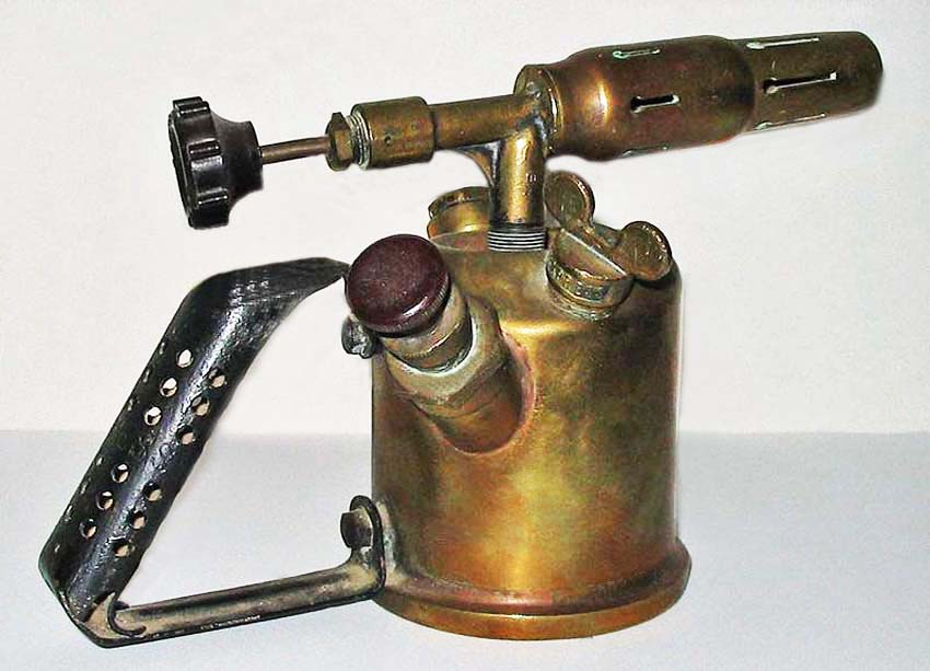 Gas blowtorch.